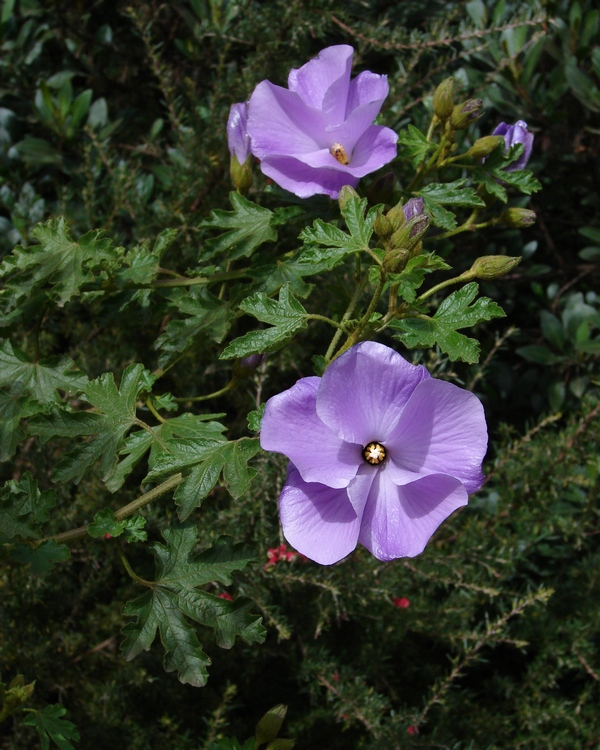 Additional to my Hibiscus collection - Native Hibiscus But in fact it is not Hibiscus, it is Australian native (SA, WA) Alyogyne huegelii - tall, spreading shrub, popular in gardens. This one is cultivar 'West Coast Gem' Photographed in Melbourne.